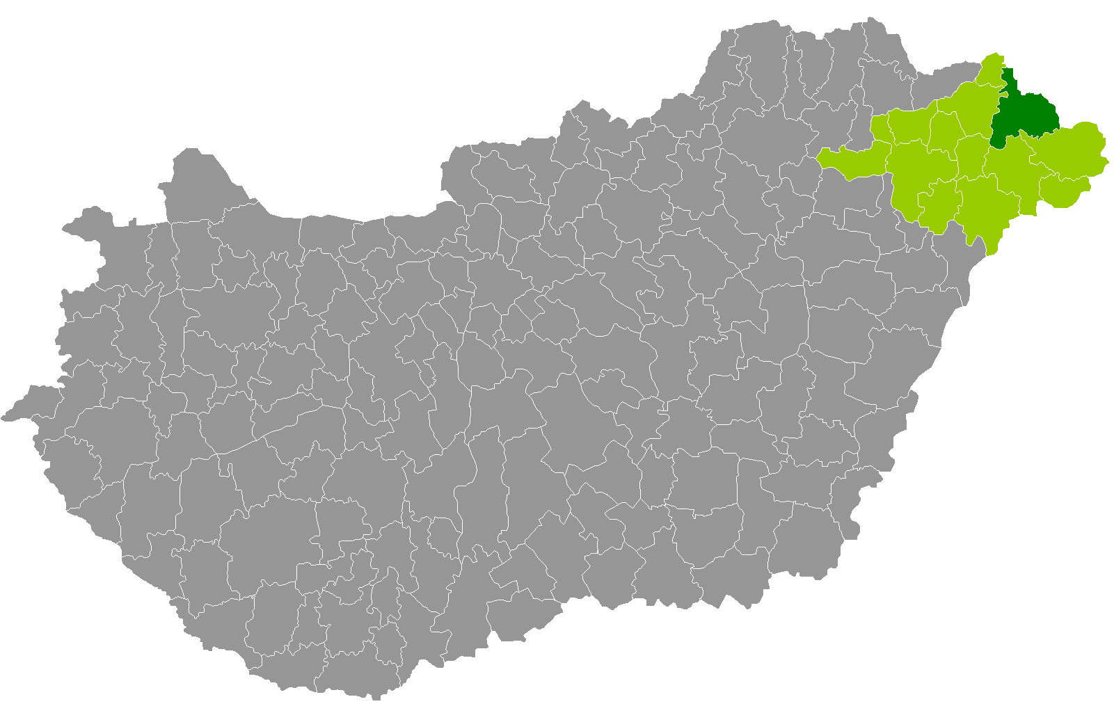 Location of Vásárosnaményi District, Szabolcs-Szatmár-Bereg, Hungary